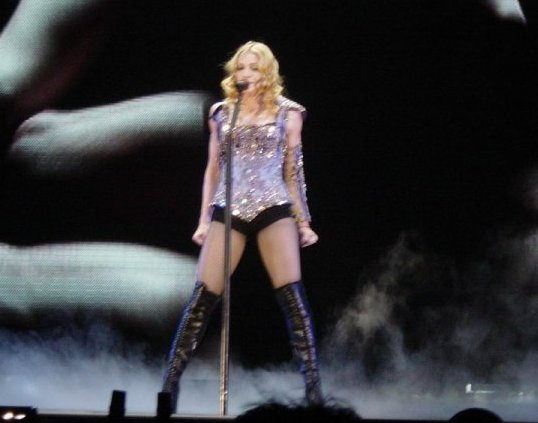 Picture taken during one of the concerts of the 2004 tour.